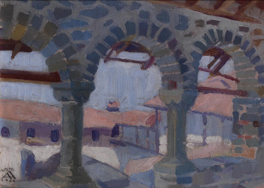 Meteora, 1922